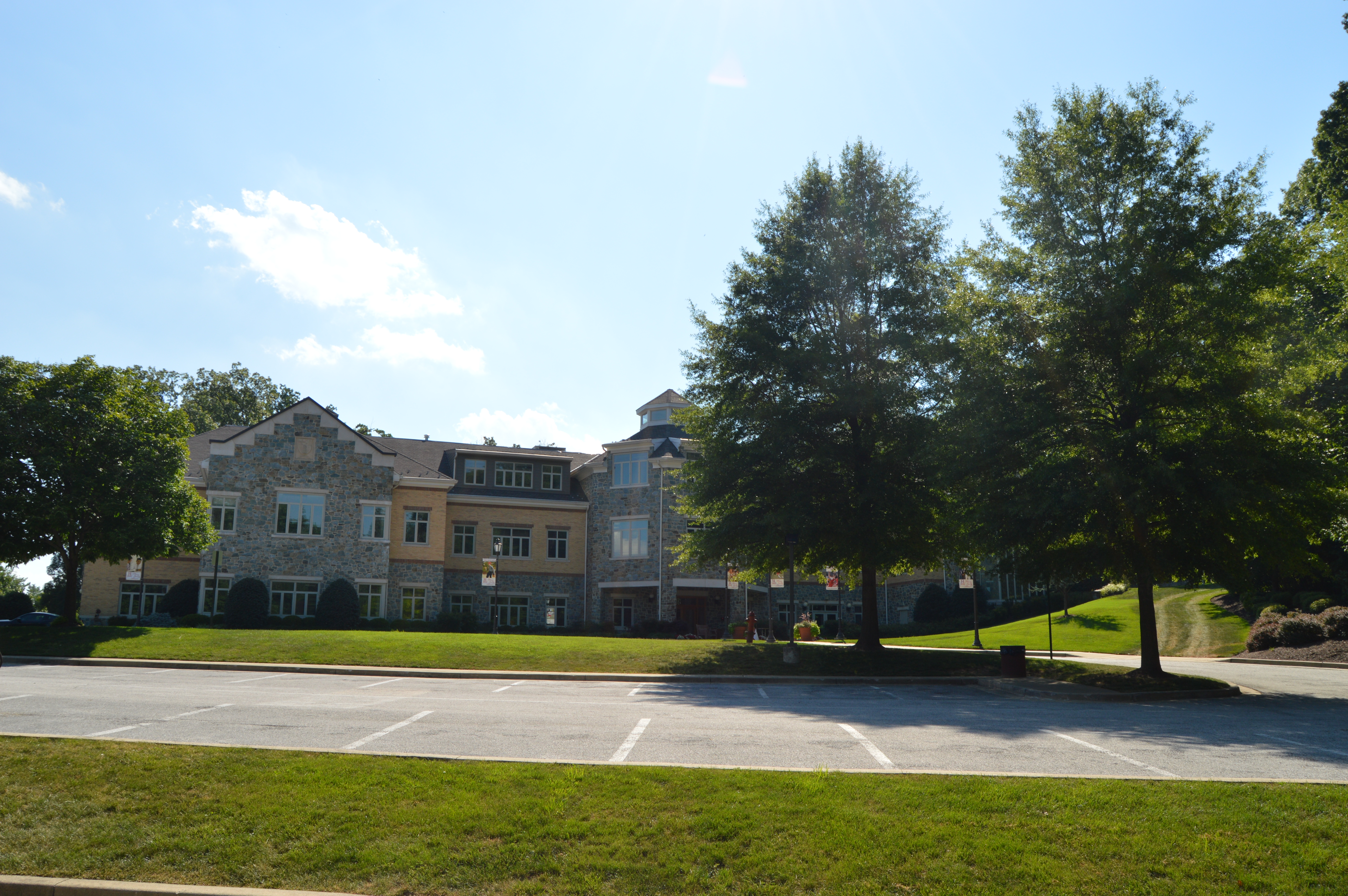 Image of the Heights School in Potomac, Maryland